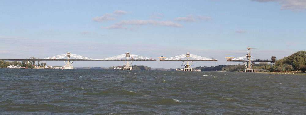 View of the new bridge in summer 2012 while sailing with the ferryboat Vidin-Calafat. Still some work to do.